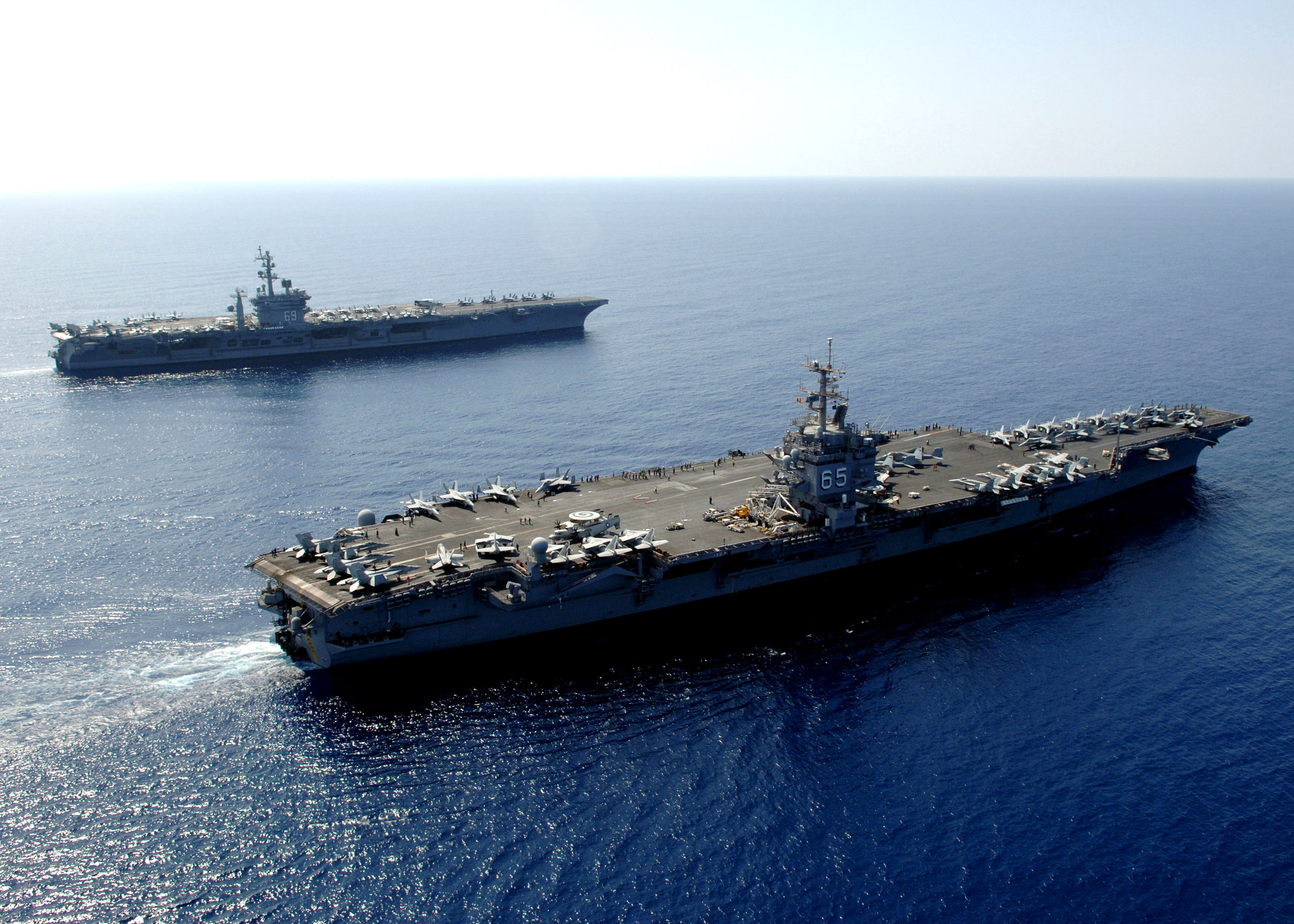 Red Sea (Oct. 31, 2006) - The nuclear-powered aircraft carrier USS Dwight D. Eisenhower (CVN 69), background, sails alongside the nuclear-powered aircraft carrier USS Enterprise (CVN 65) after arriving in the Red Sea to begin its deployment to the U.S. 5th Fleet area of operations. While in theater, Eisenhower will perform Maritime Security Operations (MSO) which help set the conditions for security and stability in the maritime environment, as well as complement the counter-terrorism and security efforts of regional nations. These operations deny international terrorists use of the maritime environment as a venue for attack or to transport personnel, weapons or other material. U.S. Navy photo by Mass Communication Specialist Seaman Rob Gaston (RELEASED)